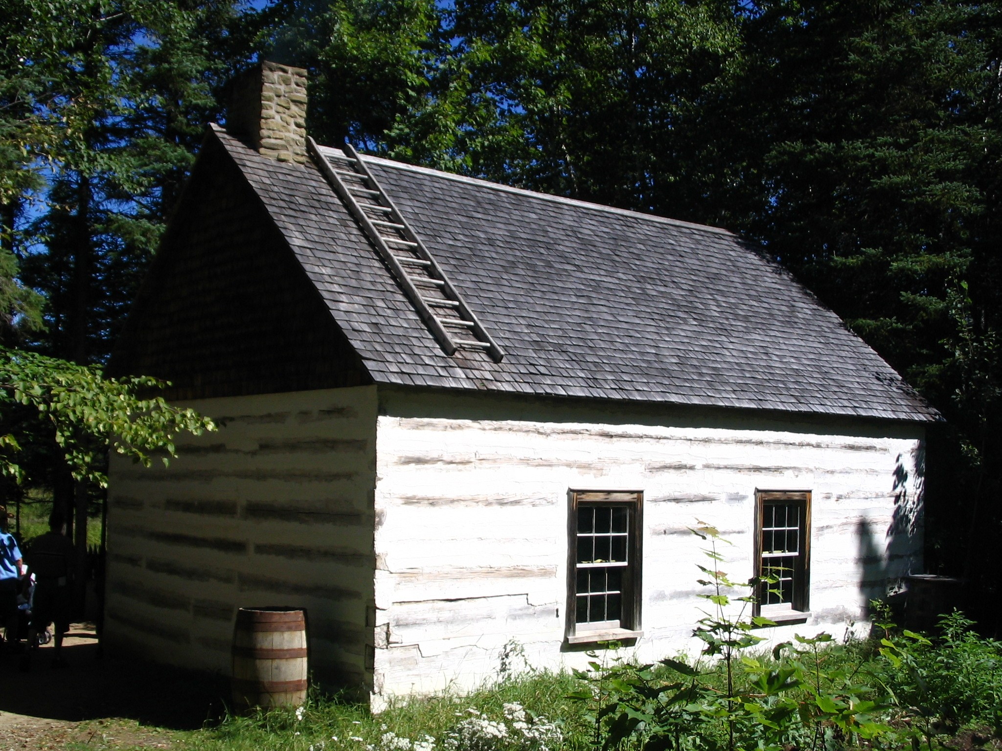 The Martin house in the Village Historique Acadien, New Brunswick, Canada.